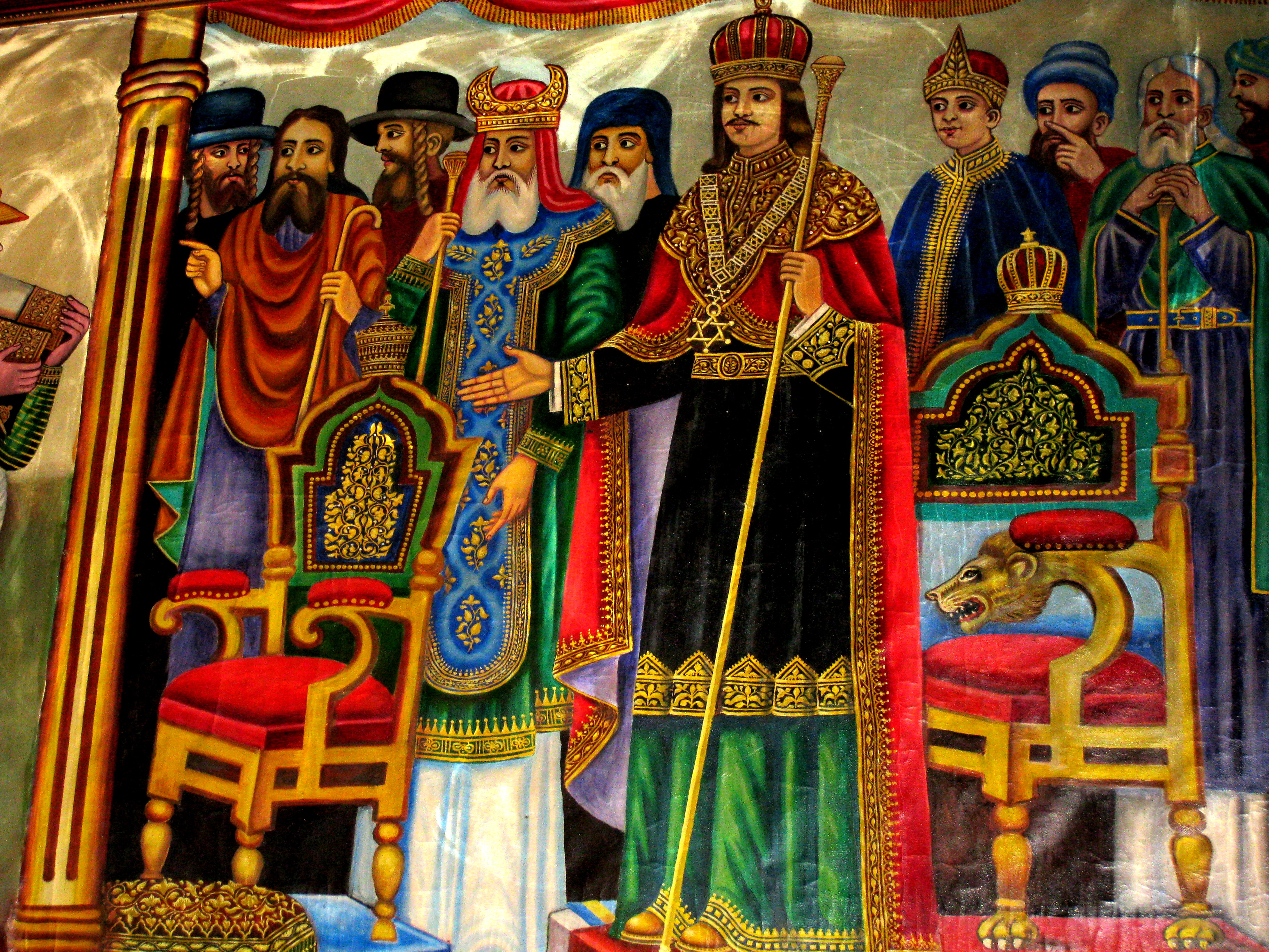 Solomon receiving the Queen of Sheba (detail), Ethiopian Chapel in the Church of the Holy Sepulchre